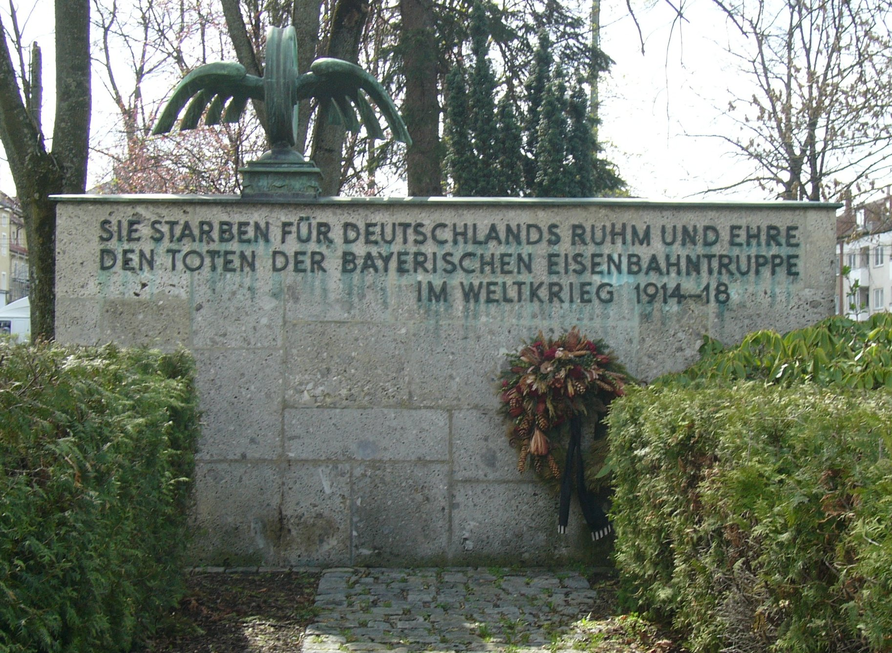 War memorial for the Bavarian railroad pioneers (Eisenbahntruppe) during World War I (Sculptor: Karl Badberger 1923, destroyed in WW2, renewed in the 1950s).